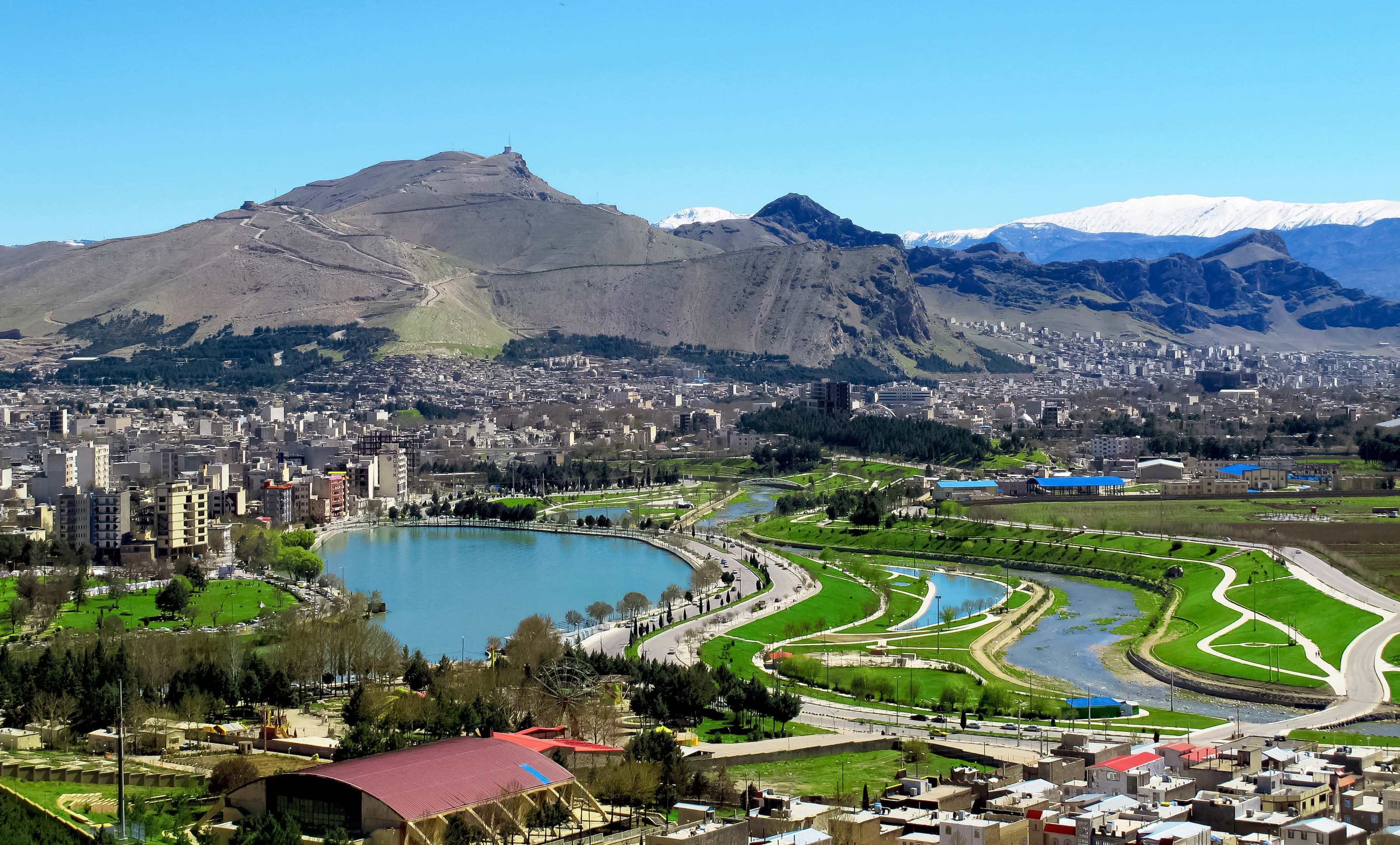 Keeyow Lake KhorramAbad, Lorestan, Iran